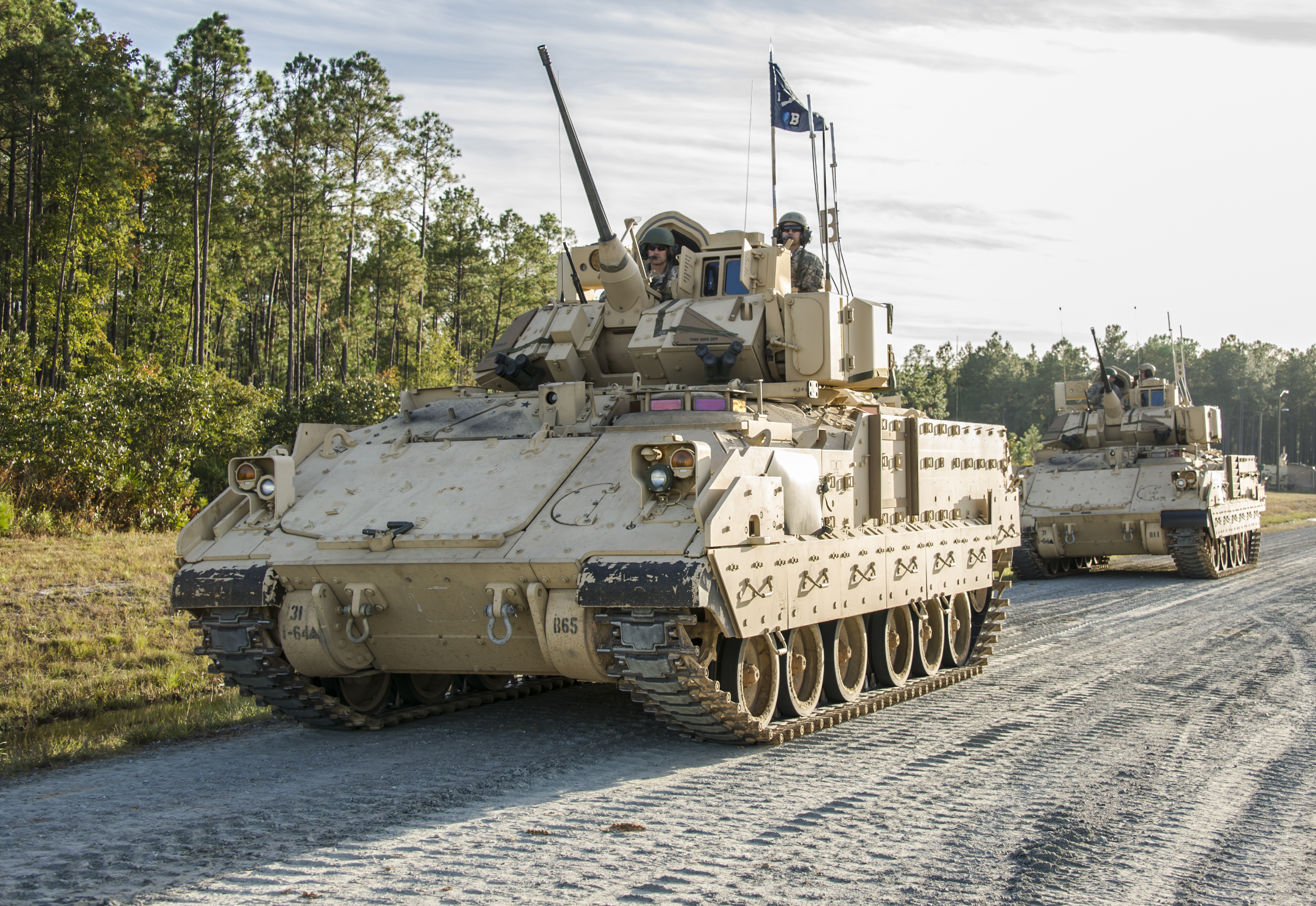 An M2A3 Bradley Fighting Vehicle from Company B, 1st Battalion, 64th Armor Regiment “Desert Rogues," 2nd Armored Brigade Combat Team, 3rd Infantry Division, sits on deck, ready to begin its gunnery Table VI qualification here at Range Red Cloud, Nov. 4. The gunnery is a crew-level mounted gunnery, and consists of crews conducting Tables II-VI. Each table has a specific purpose, which collective builds the crew up in proficiency until the last table, table VI, which consists of numerous targets and maneuvers, where the crew attempts to qualify on the vehicle. The 2nd ABCT has been conducting gunnery for more than a month now and is still far from finished. (U.S. Army photo by Sgt. Richard Wrigley, 2nd ABCT, 3rd ID, Public Affairs NCO)